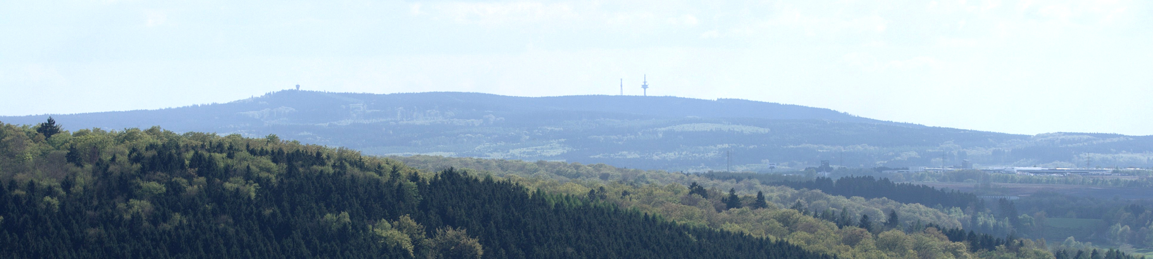 View from north to Montabaurer Höhe mountain range in Westerwald, Germany. Seen from Quirnbach village.